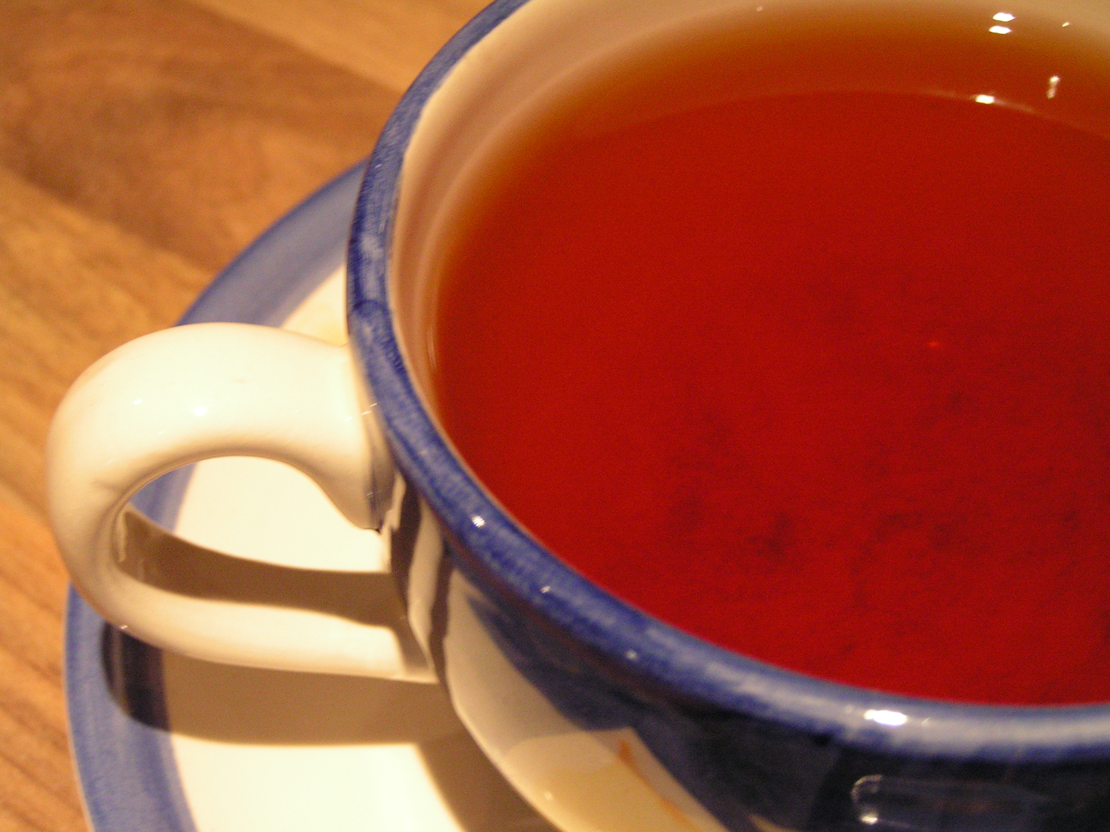 My evening cuppa.